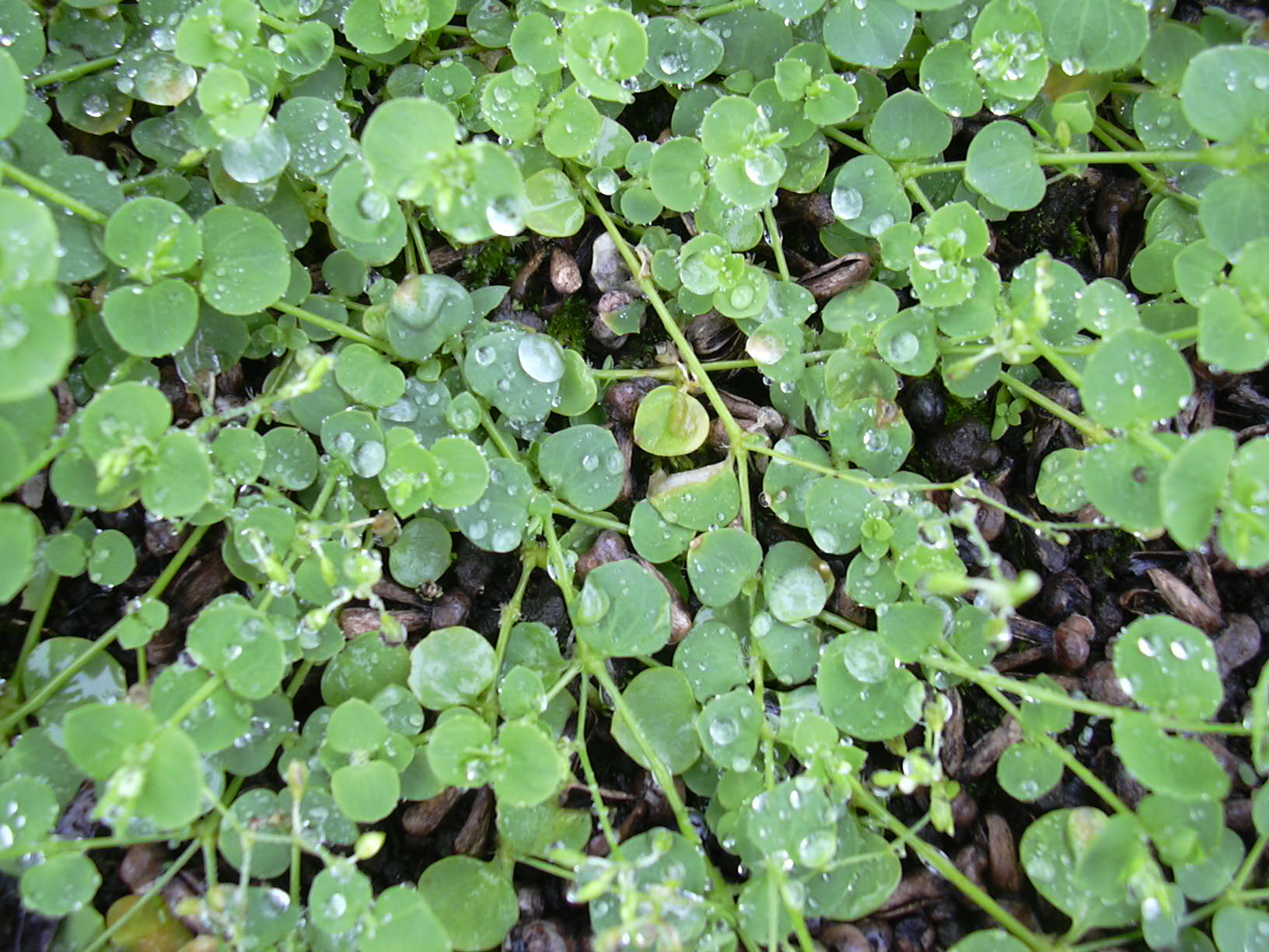 Drymaria cordata var. pacifica (habit). Location: Hawaii, Hilo